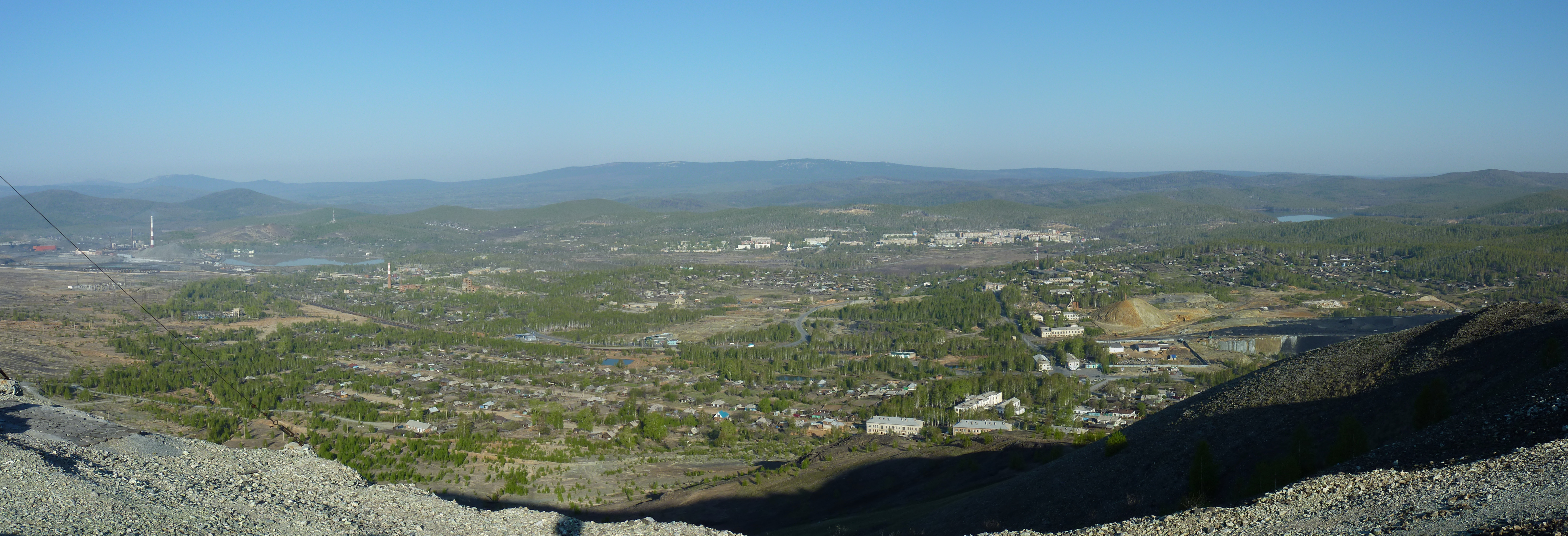 Panorama of Karabash.